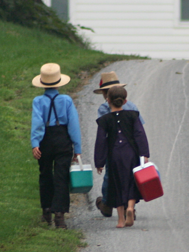 On the way to school